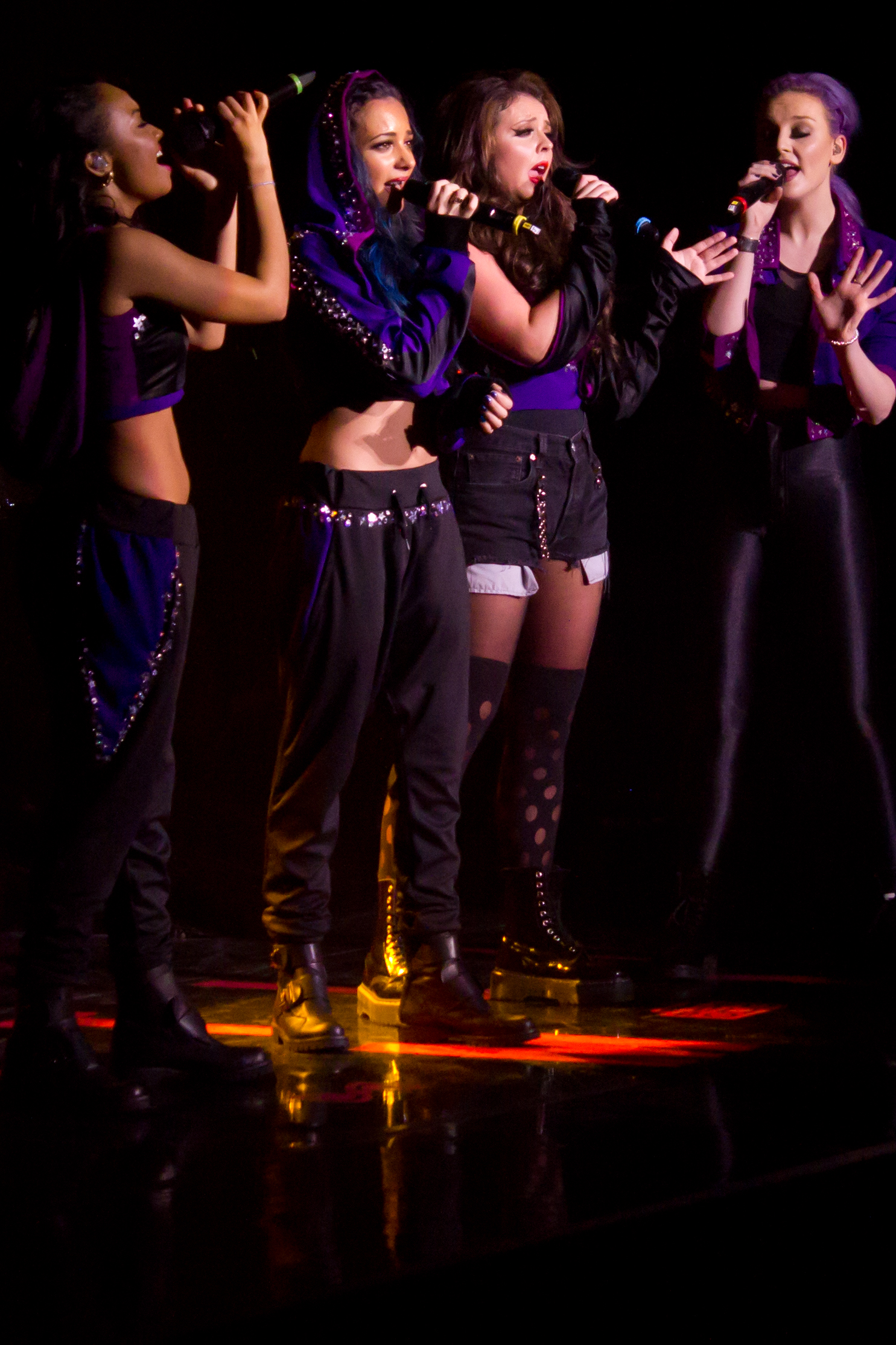 Little Mix